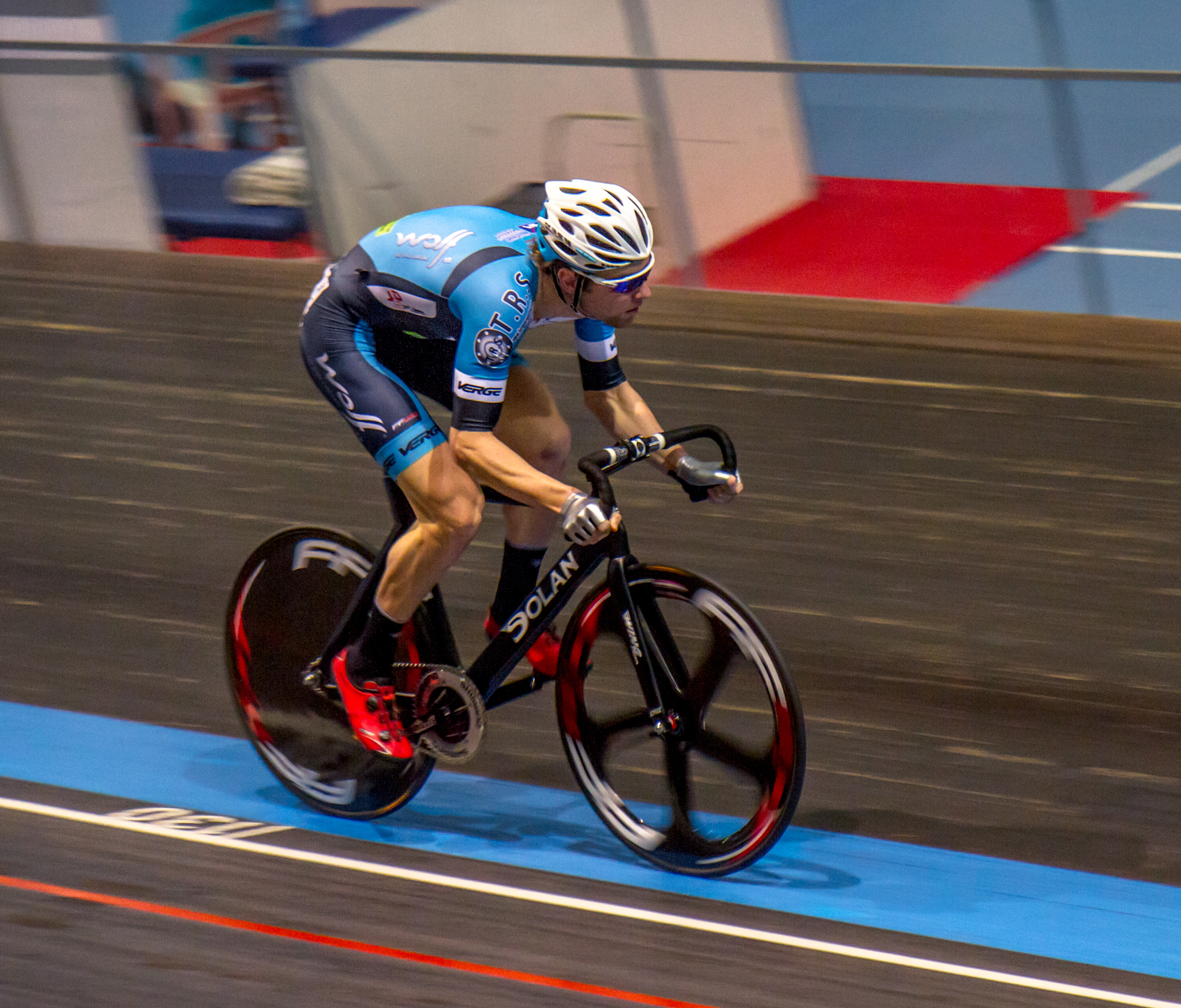 Roy Pieters (NED). Men's points race. International Belgian X-mas Meeting, Vlaams Wielercentrum Eddy Merckx, Ghent, Belgium, 2015.